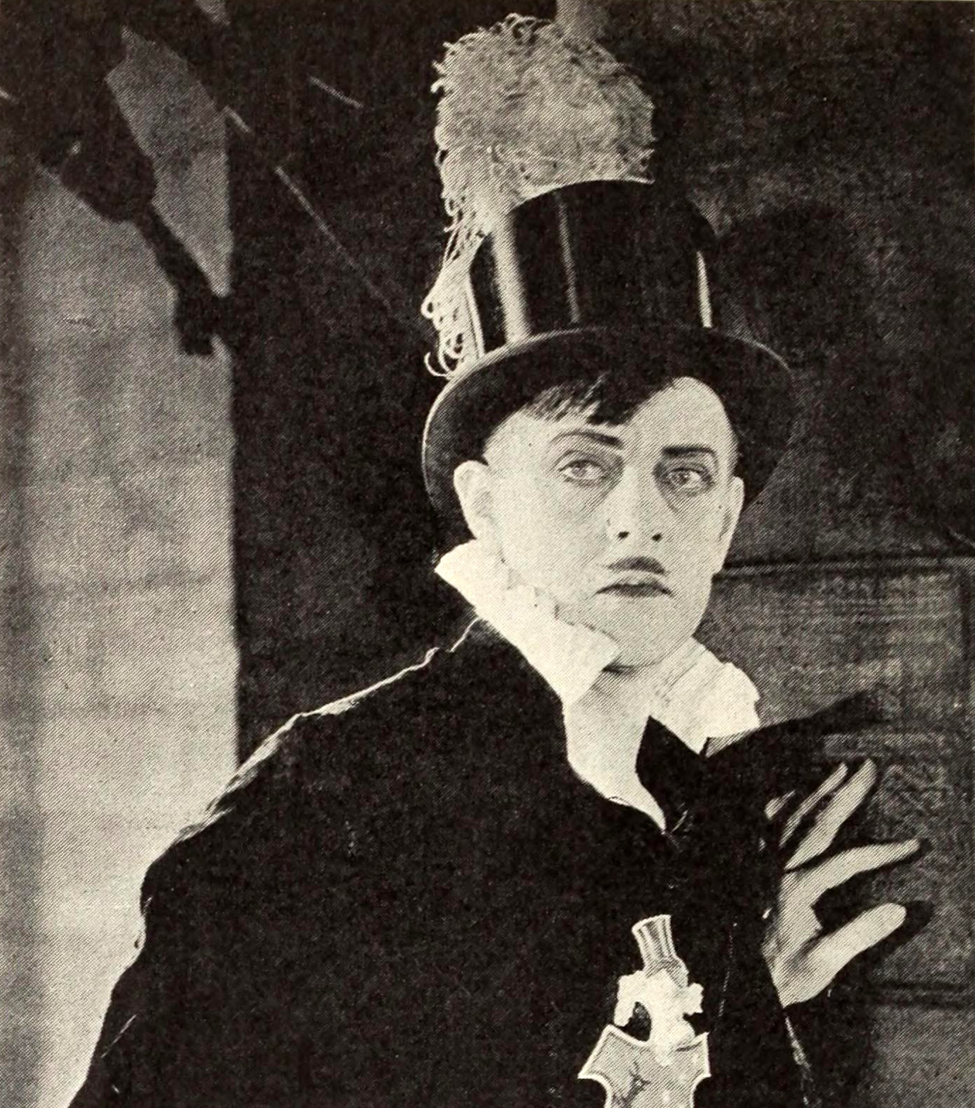 Promotional photo of actor Harry Myers as the Yankee in the American silent film A Connecticut Yankee in King Arthur's Court (1921).